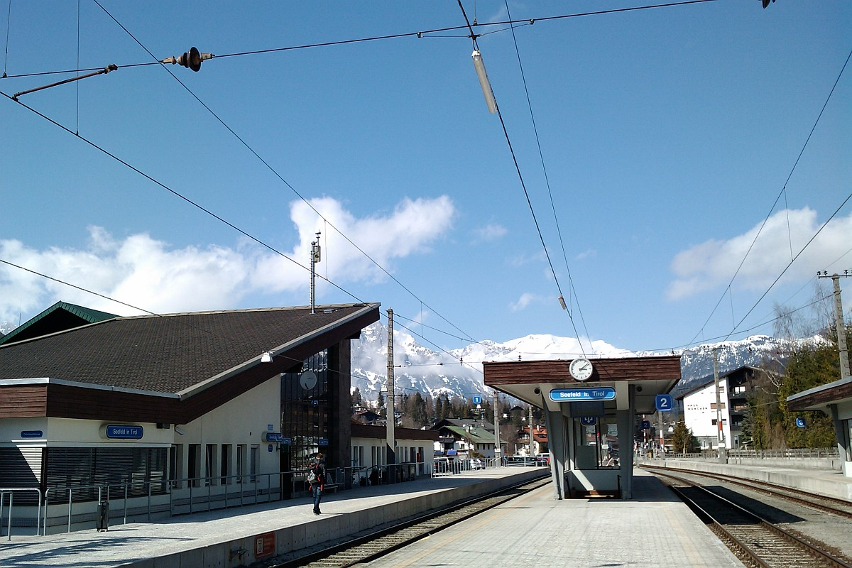 Railway station Seefeld in Tiro, Austria